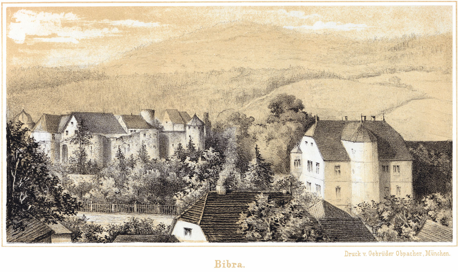 Engraving of Bibra (both Burg and Neu Schloss)